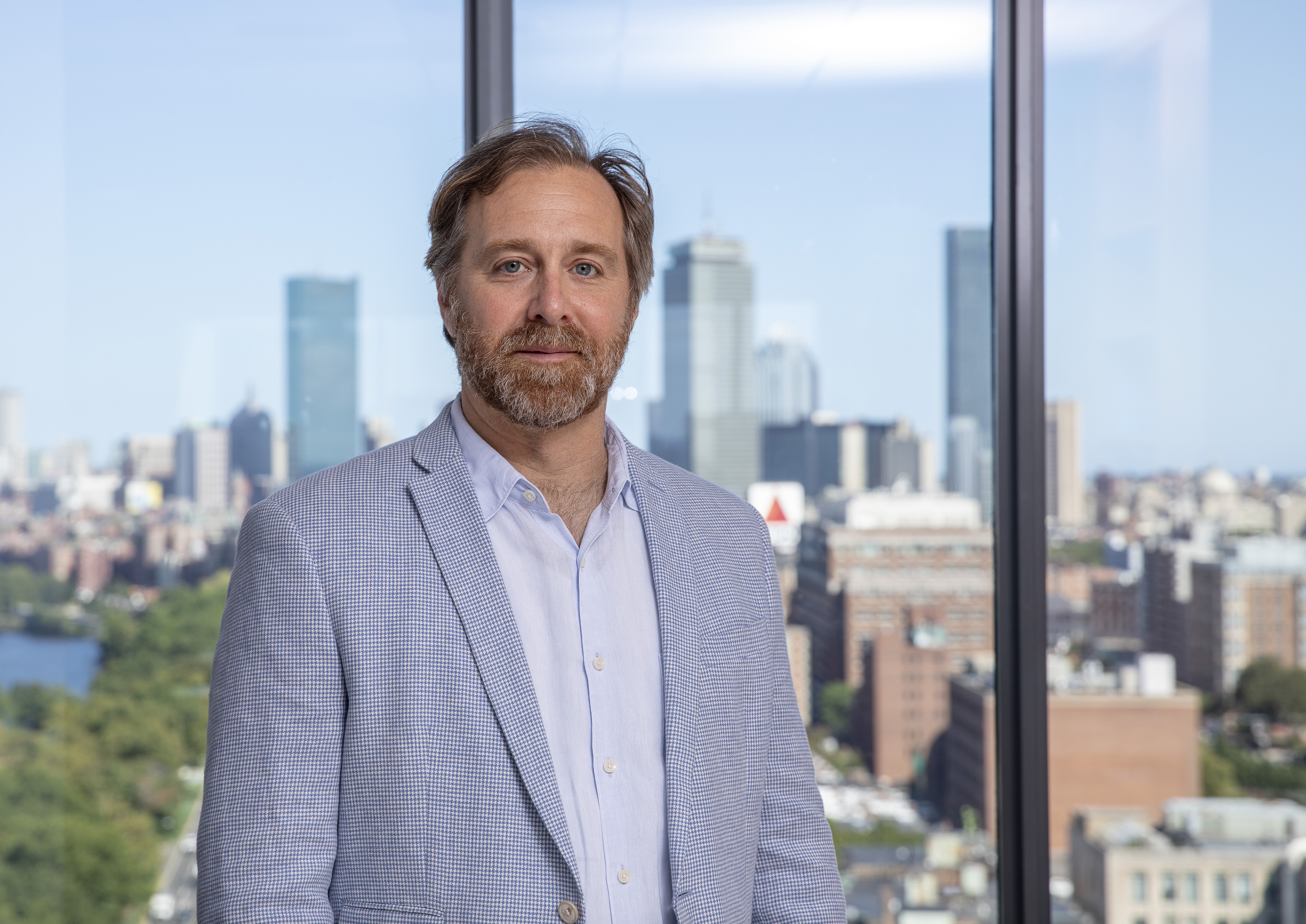 This is a picture of David H. Webber with the Boston skyline in the background.